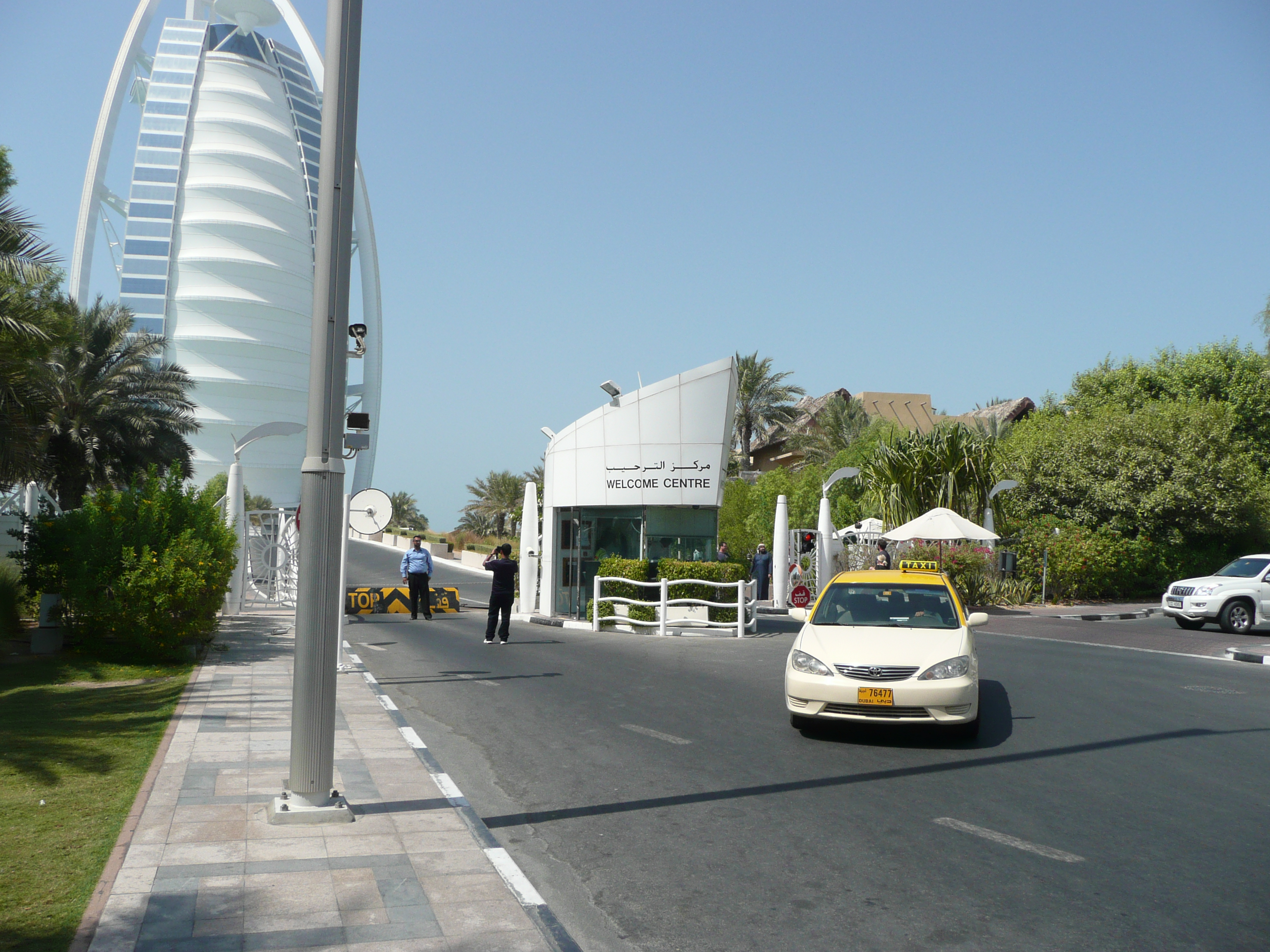 Entrance to the Burj Al Arab with a security checkpoint in Dubai, United Arab Emirates. Vehicles reach the Burj Al Arab through crossing a bridge after they have passed the security checkpoint.